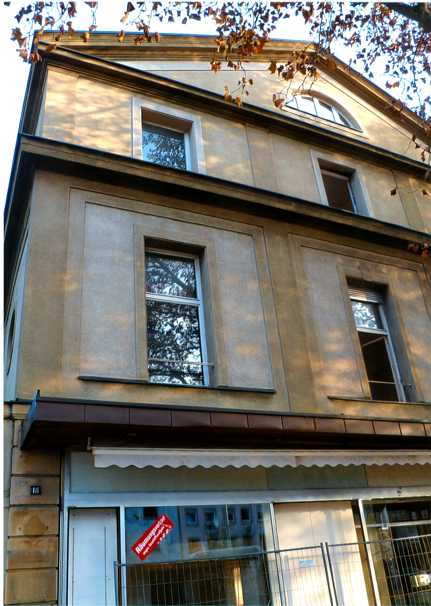 Heilbronn, Haus Allee 18 (Villa Ludwig Hauck), 2011, Bild